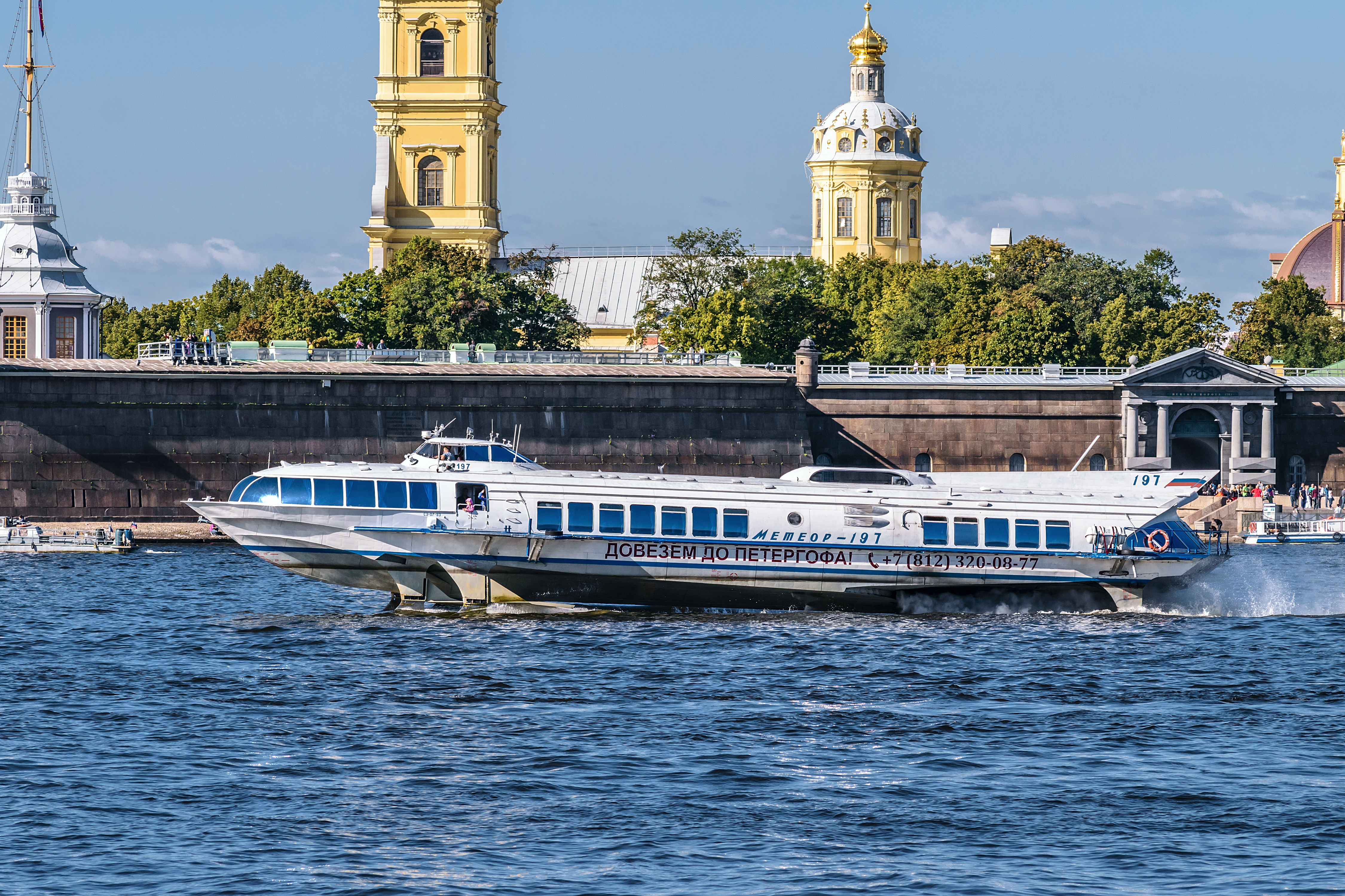 Meteor Boat on Neva River